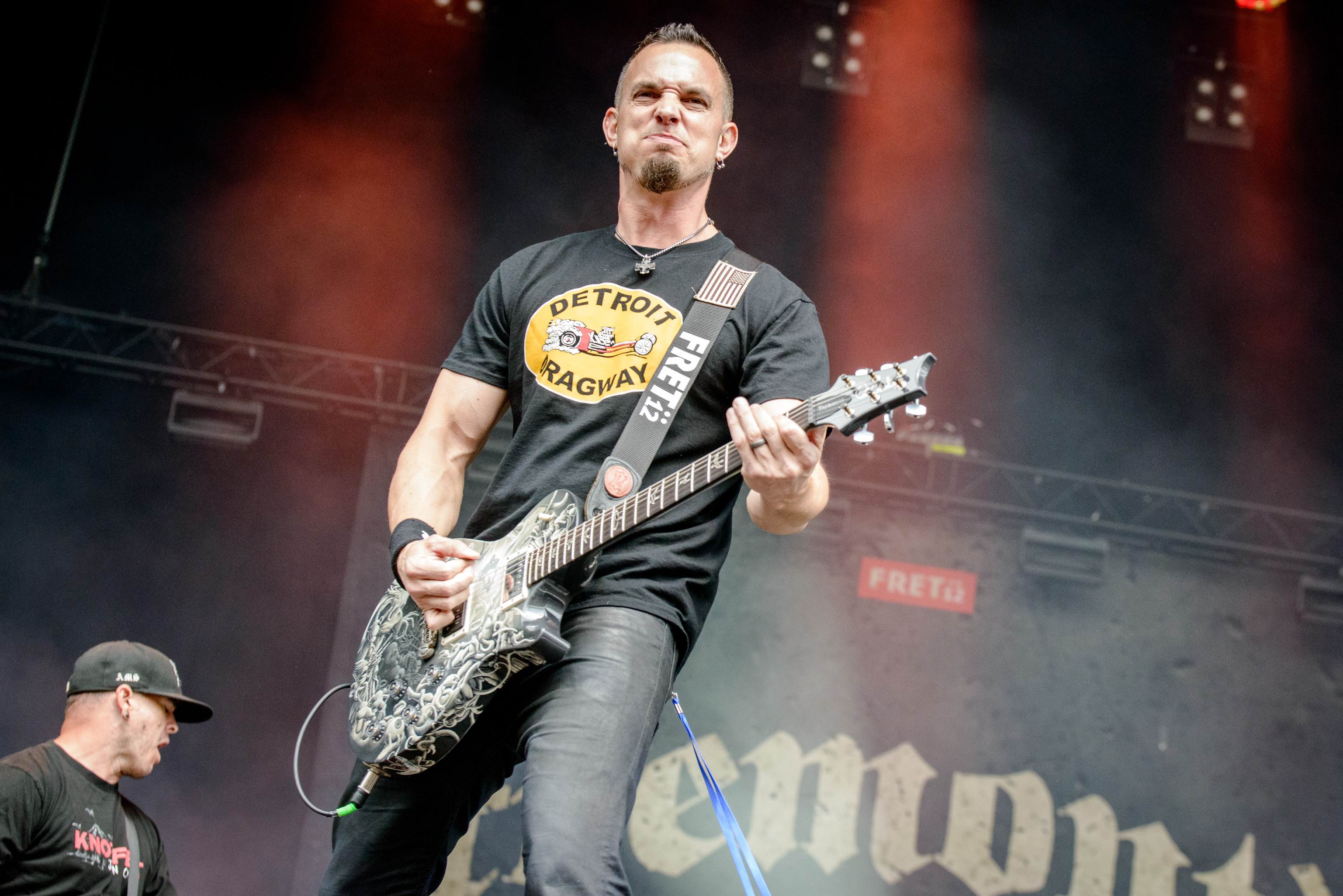 Tremonti Live @ Rockavaria 2016